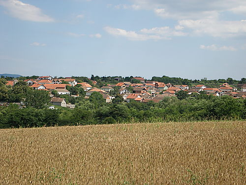 Panoramic view of Garevo near Veliko Gradište, Serbia